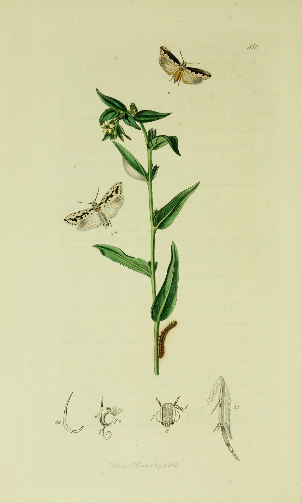 An illustration from British Entomology by John Curtis. Lepidoptera: Yponomeuta pusiella or Ethmia pusiella (Gromwell Moth).